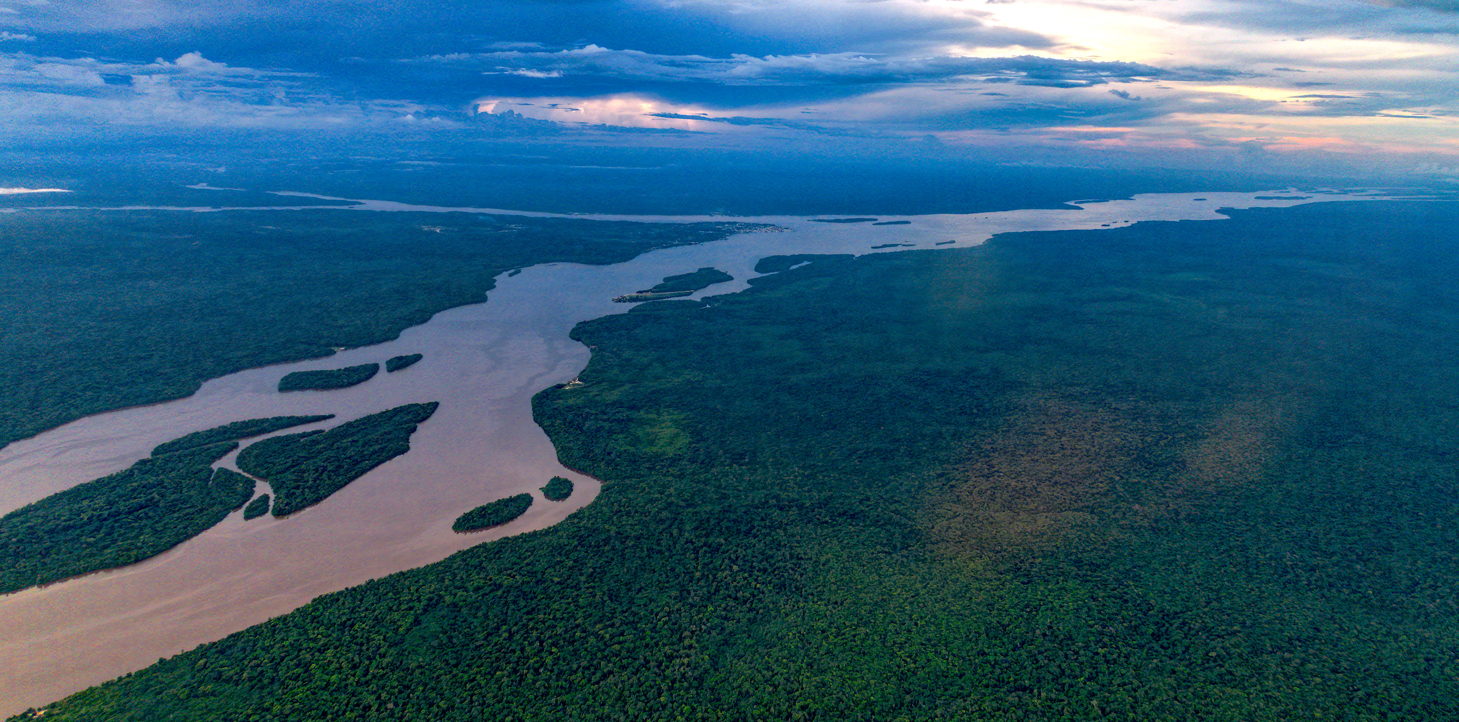 The flight back to Georgetown on the coast goes alongside the Essequibo River. Where the Mazaruni River joins the Essequibo is the town of Bartica which is on our agenda for tomorrow.